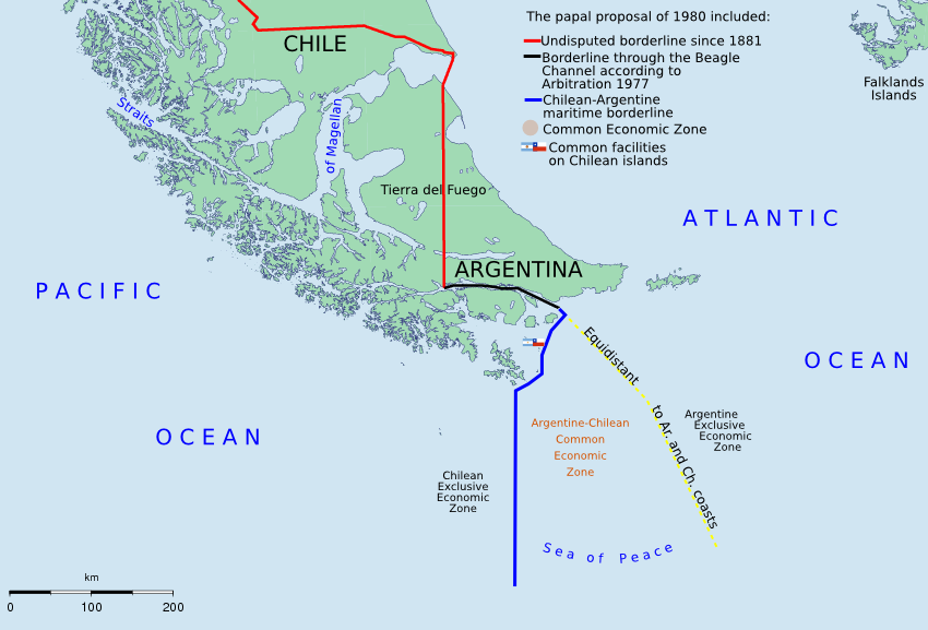 The papal proposal of 1980 regardimg the Beagle Conflict.